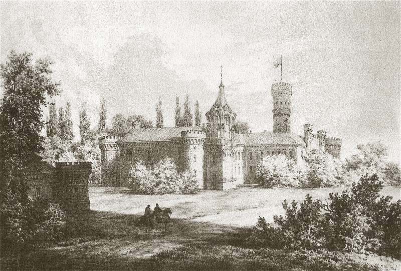 Castle of Raudonė, Lithuania